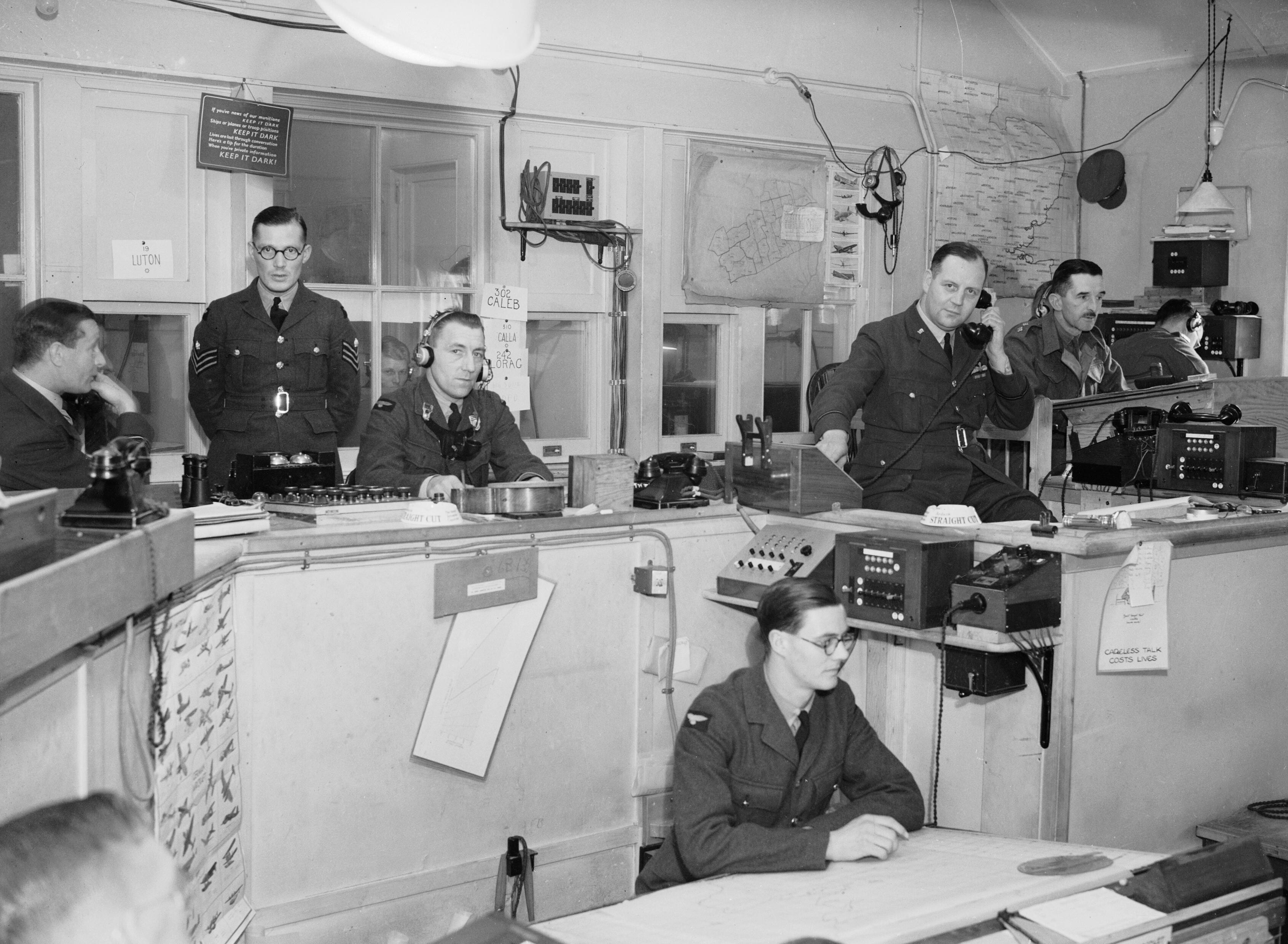 Interior of RAF Fighter Command's Sector 'G' Operations Room at Duxford, Cambridgeshire, September 1940. Interior of the Sector 'G' Operations Room at Duxford, Cambridgeshire. The callsigns of fighter squadrons controlled by this Sector can be seen on the wall behind the operator sitting third from left. The Controller is sitting fifth from the left, and on the extreme right, behind the Army Liaison Officer, are the R/T operators in direct touch with the aircraft.